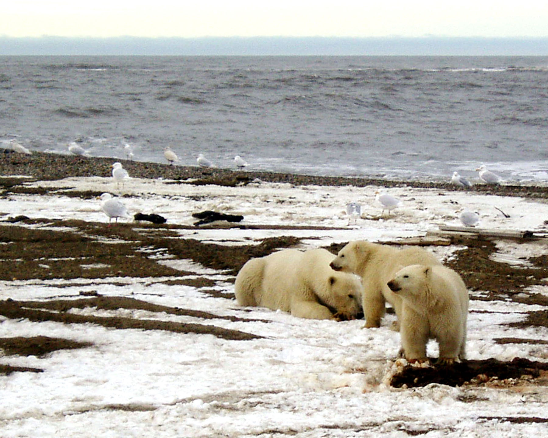 1002 Area: Polar Bear sow and two cubs on the Beaufort Sea coast (Ursus arctos).